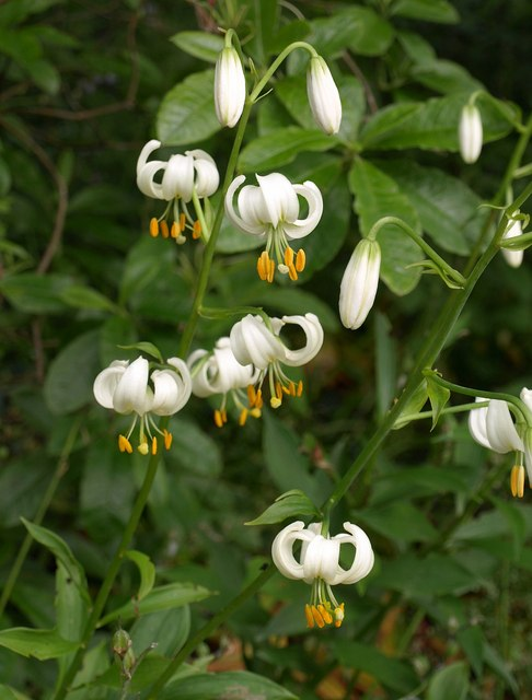 Lily at Castle Drogo This lily at the end of the shrub borders in the formal gardens has the distinctive turkscap shape.